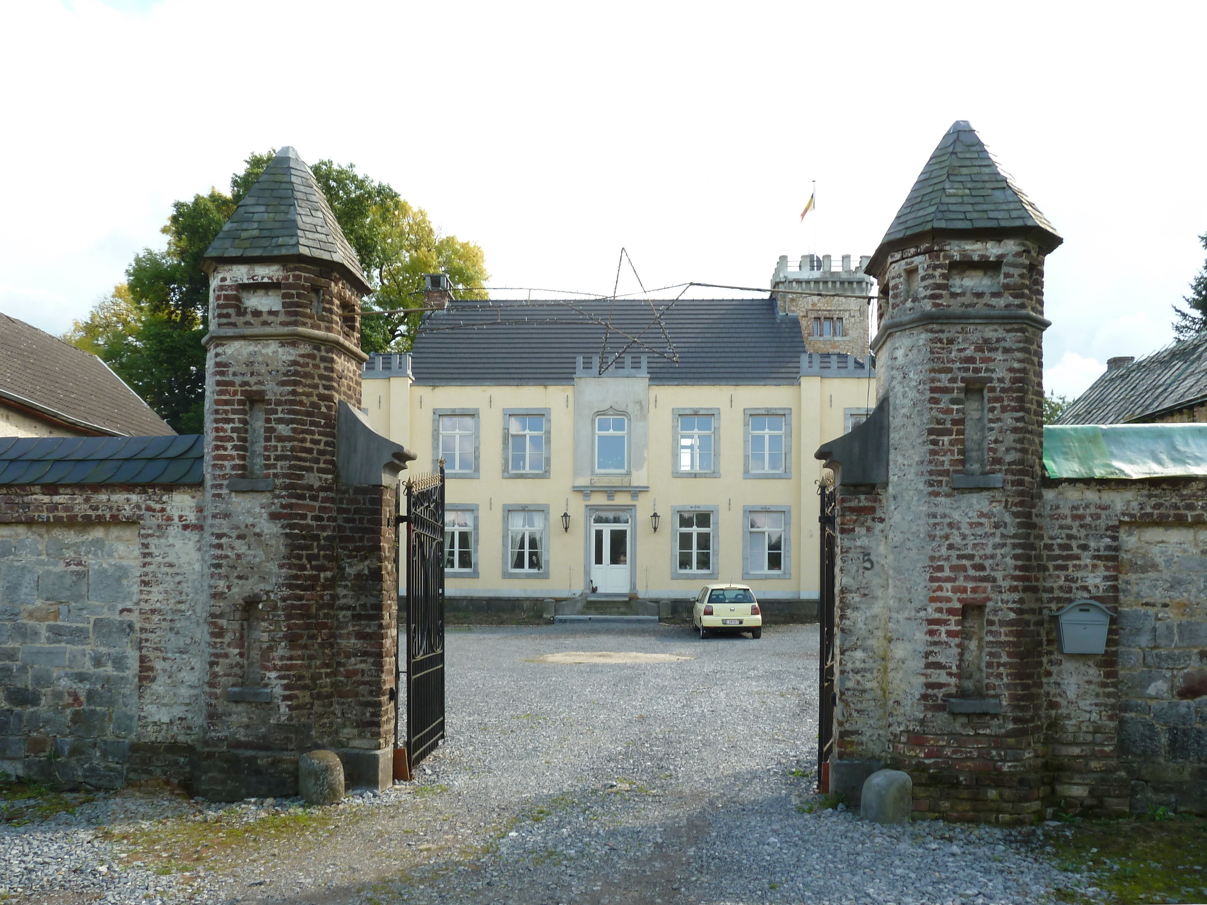 Castle Knoppenburg and surrounding area, Raeren, Belgium